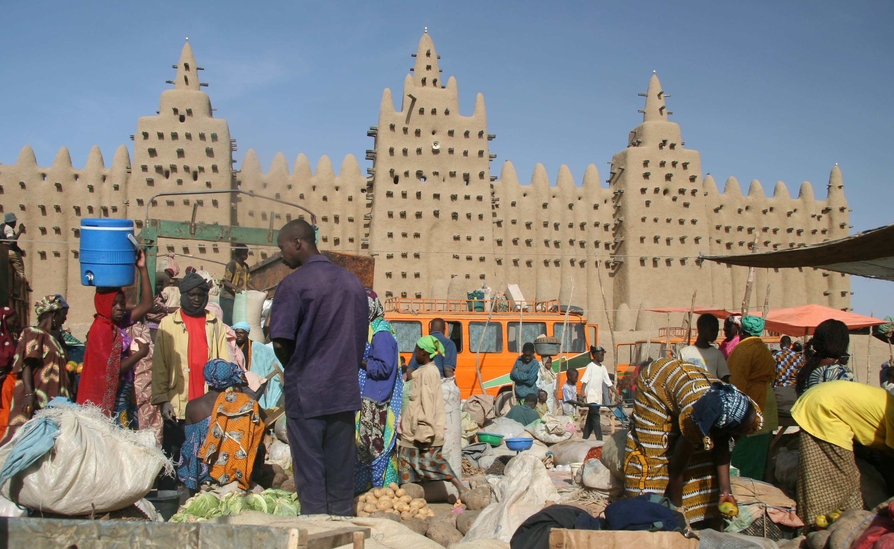 Monday market in Djenne and the Great Mosque of Djenné, Mali